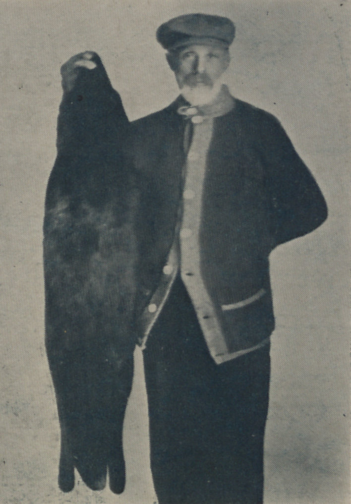 A man holding a black fox skin (cropped version, without frame).